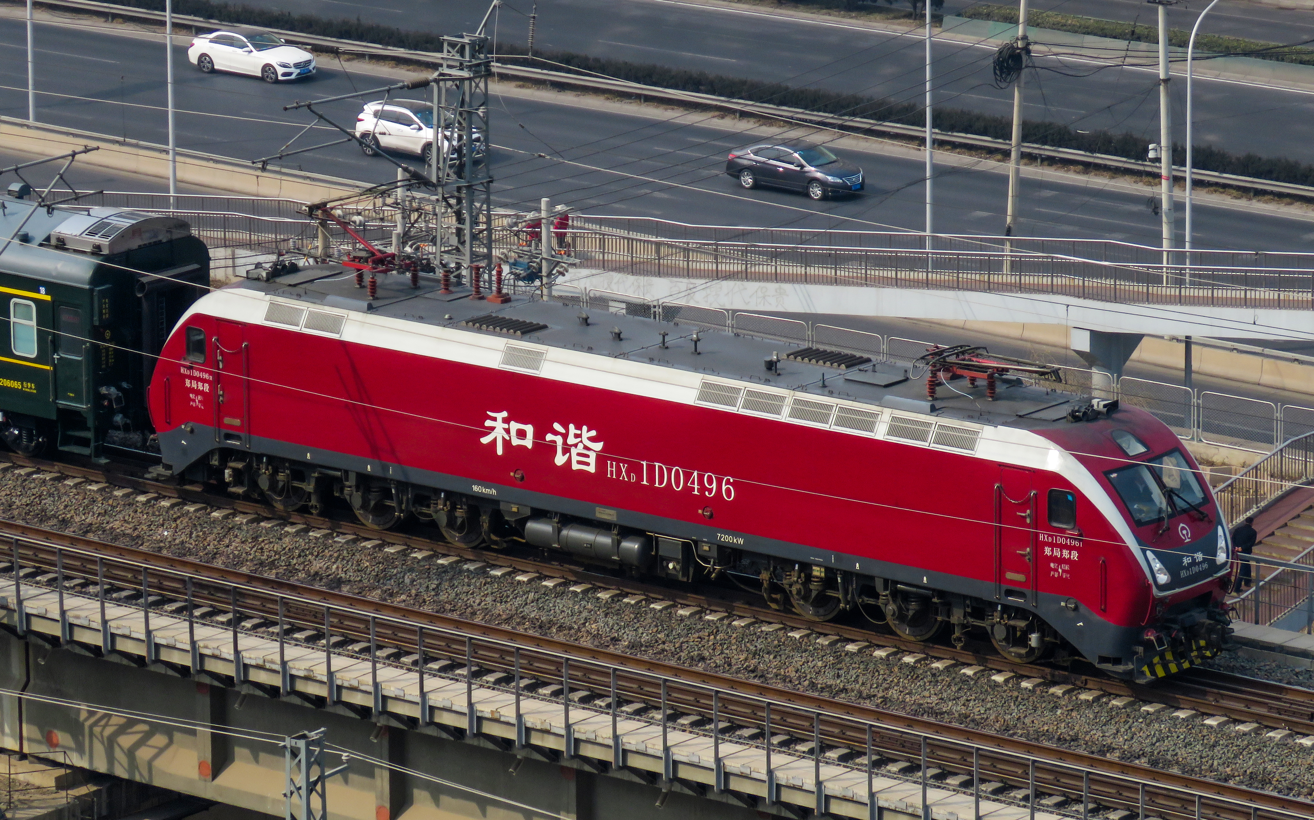 T50 from Yichang East.